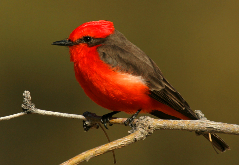 Vermilion Flycatcher Pyrocephalus obscurus flammeus, Pima, Arizona.